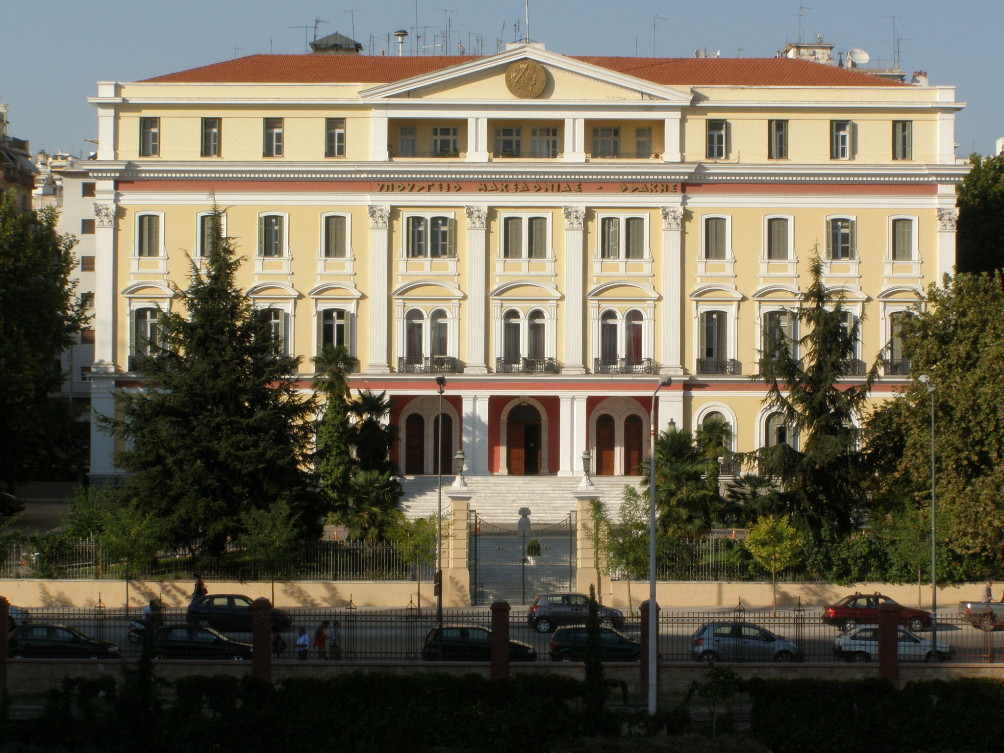 The Building of Ministery of Macedonia and Thrace, Thessaloniki, Greece.